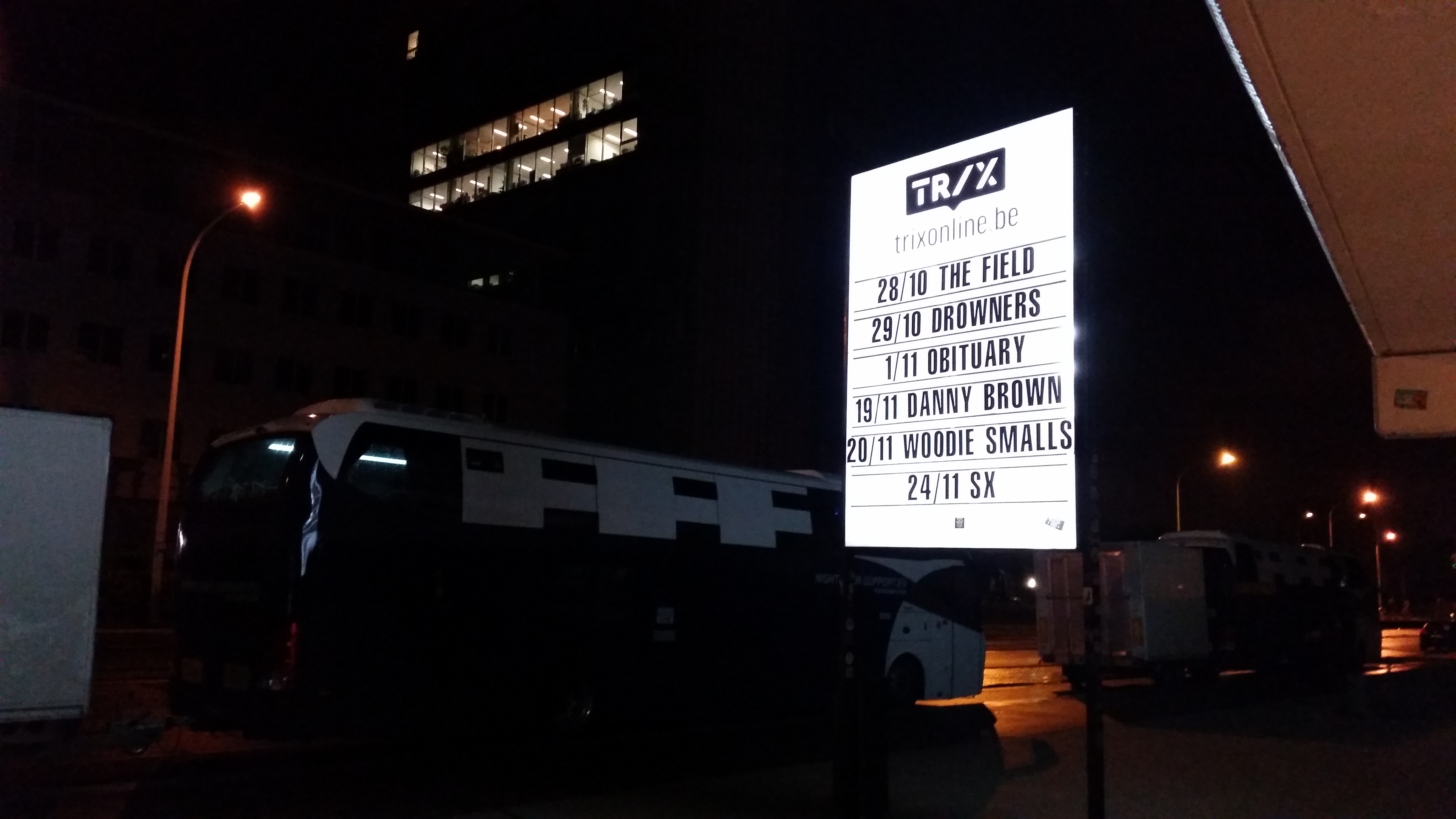 Display advertising the upcoming shows in front of Muziekcentrum Trix from Antwerp.